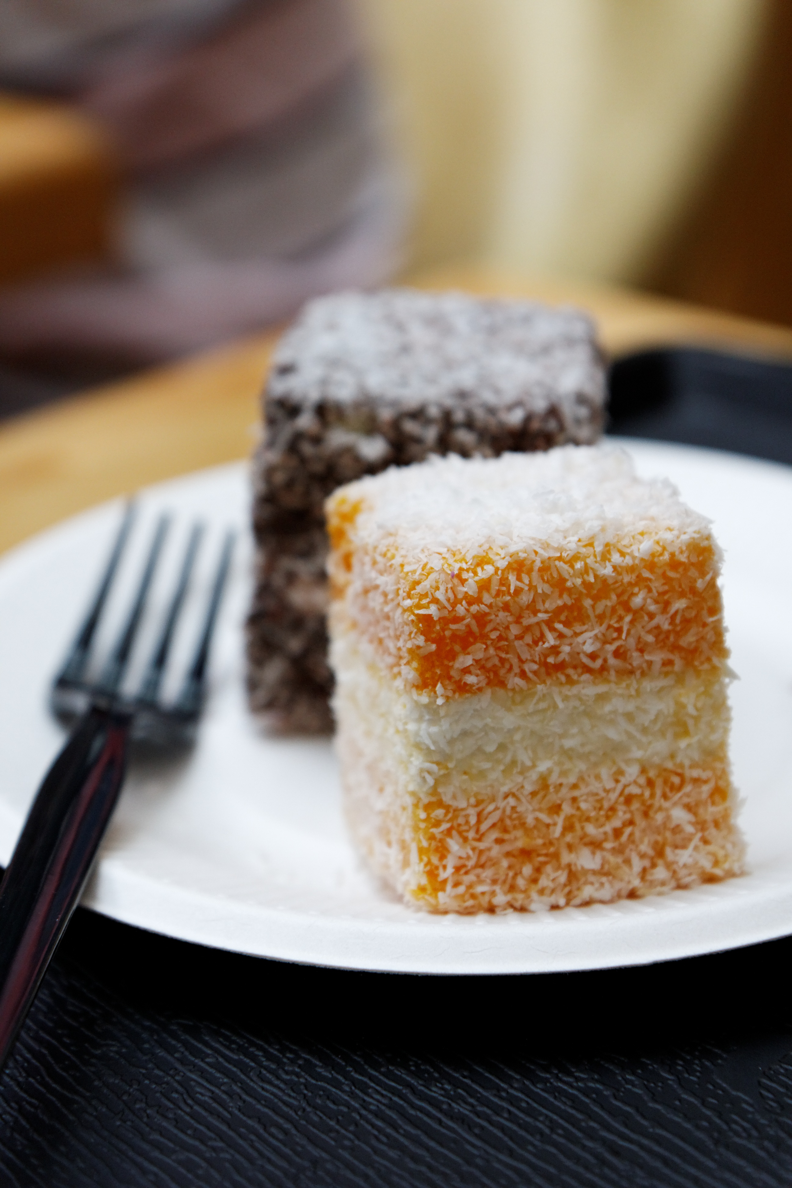 Passion Fruit and Chocolate Lamingtons